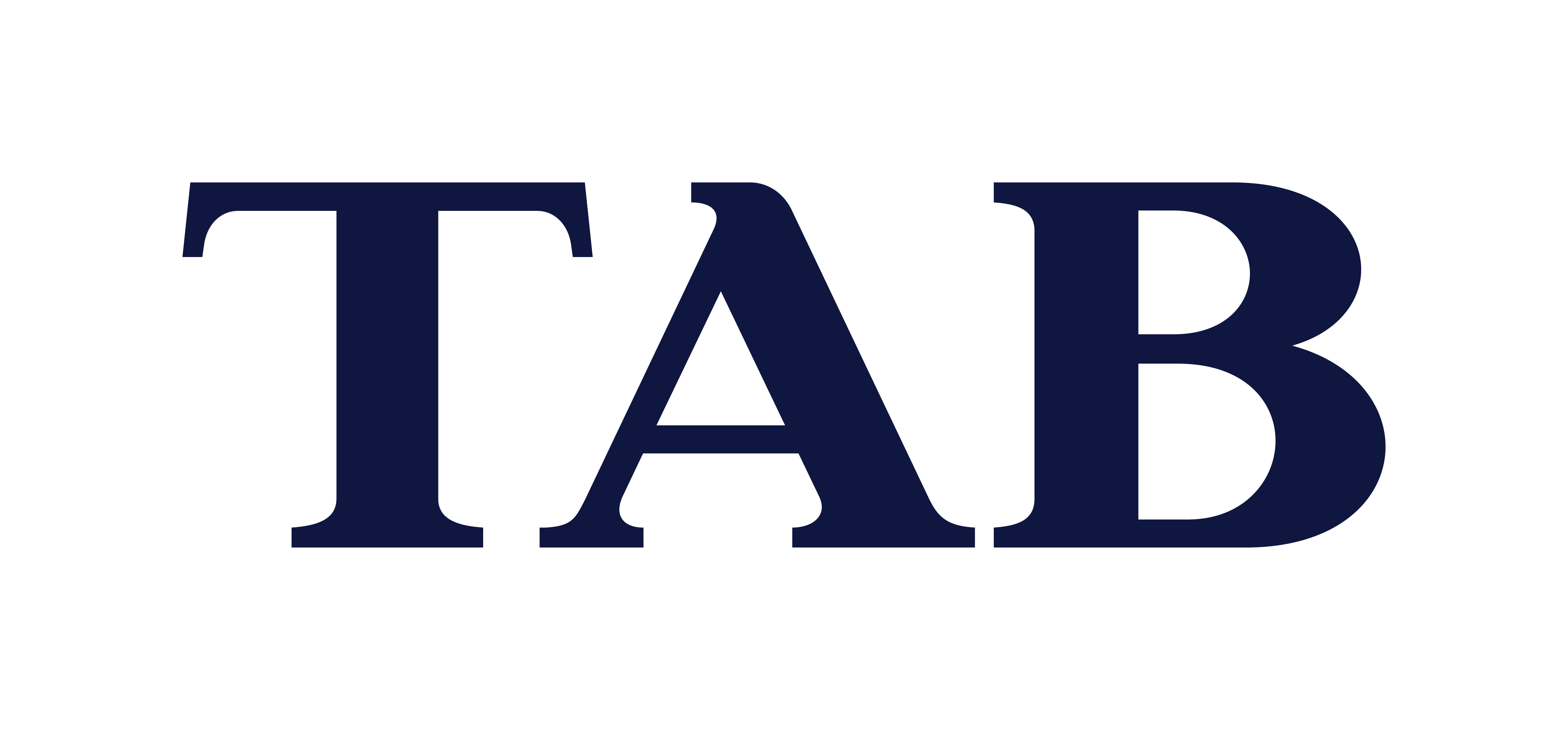 TAB Logo